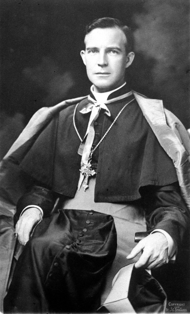 Photograph of John Joseph Glennon